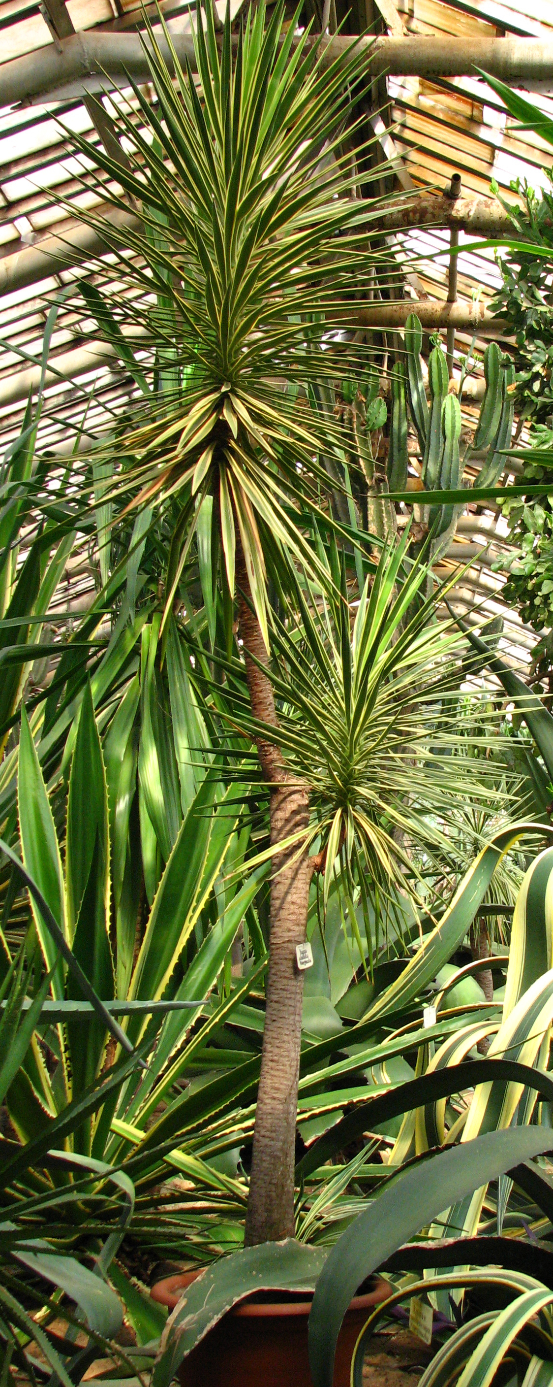 Greenhouses of the Botanical garden (Saint Petersburg). Yucca aloifolia 'marginata'